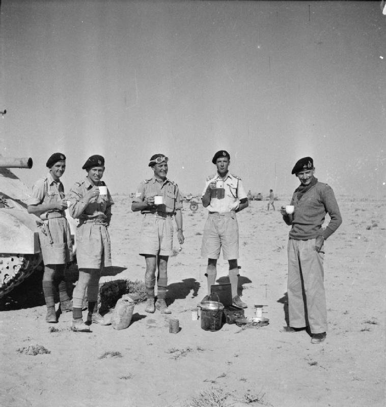 The British Army in North Africa 1942 General Montgomery enjoys a cup of coffee with the Tank Protection Troop of his Grant tank in the Western Desert, 6 November 1942. Left to right: Trooper Keenan, Sergeant Stephen Kennedy, Corporal James Fraser, Lieutenant Malden and General Montgomery.